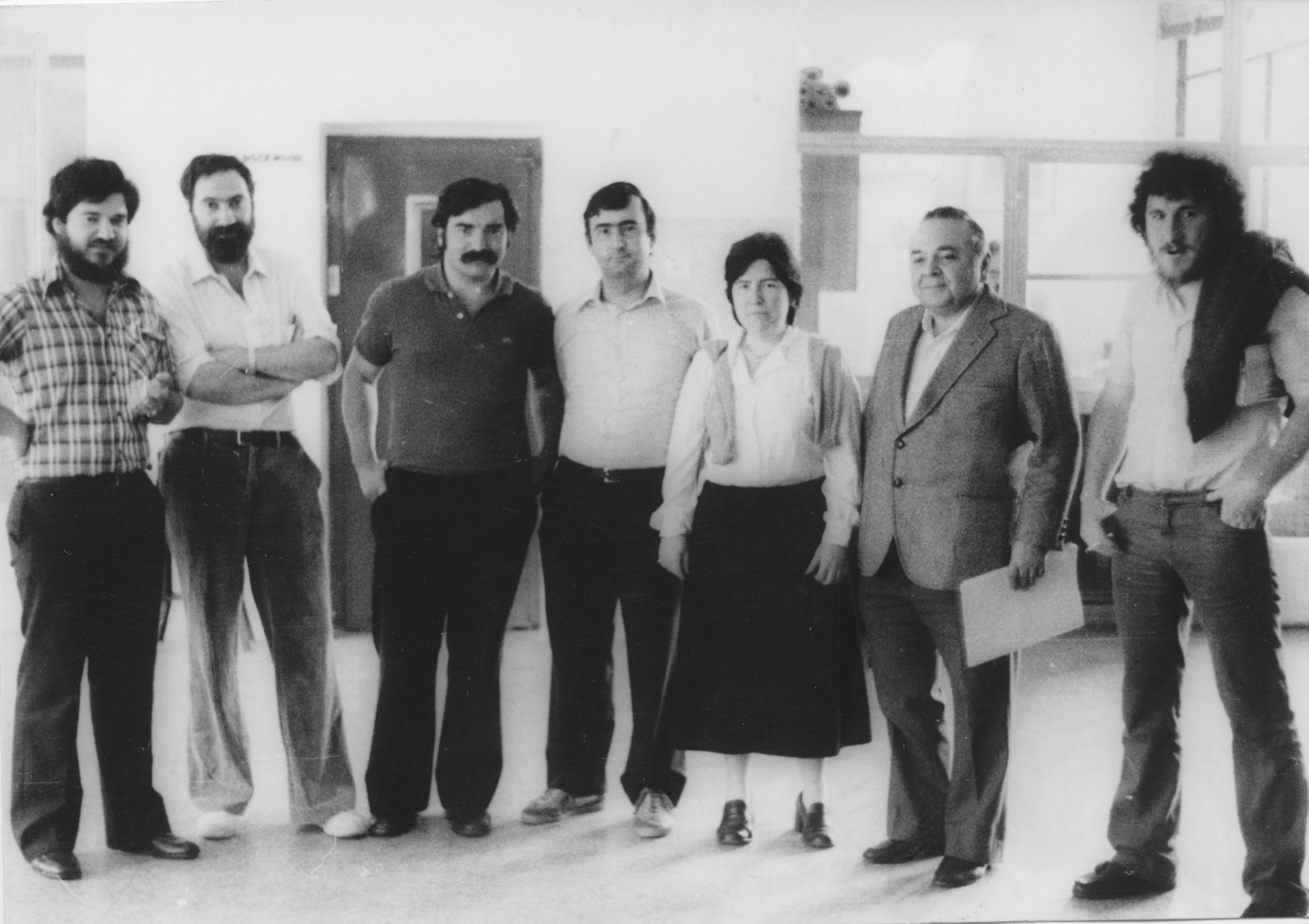 Some of the first Basque professors of High School in Donostia